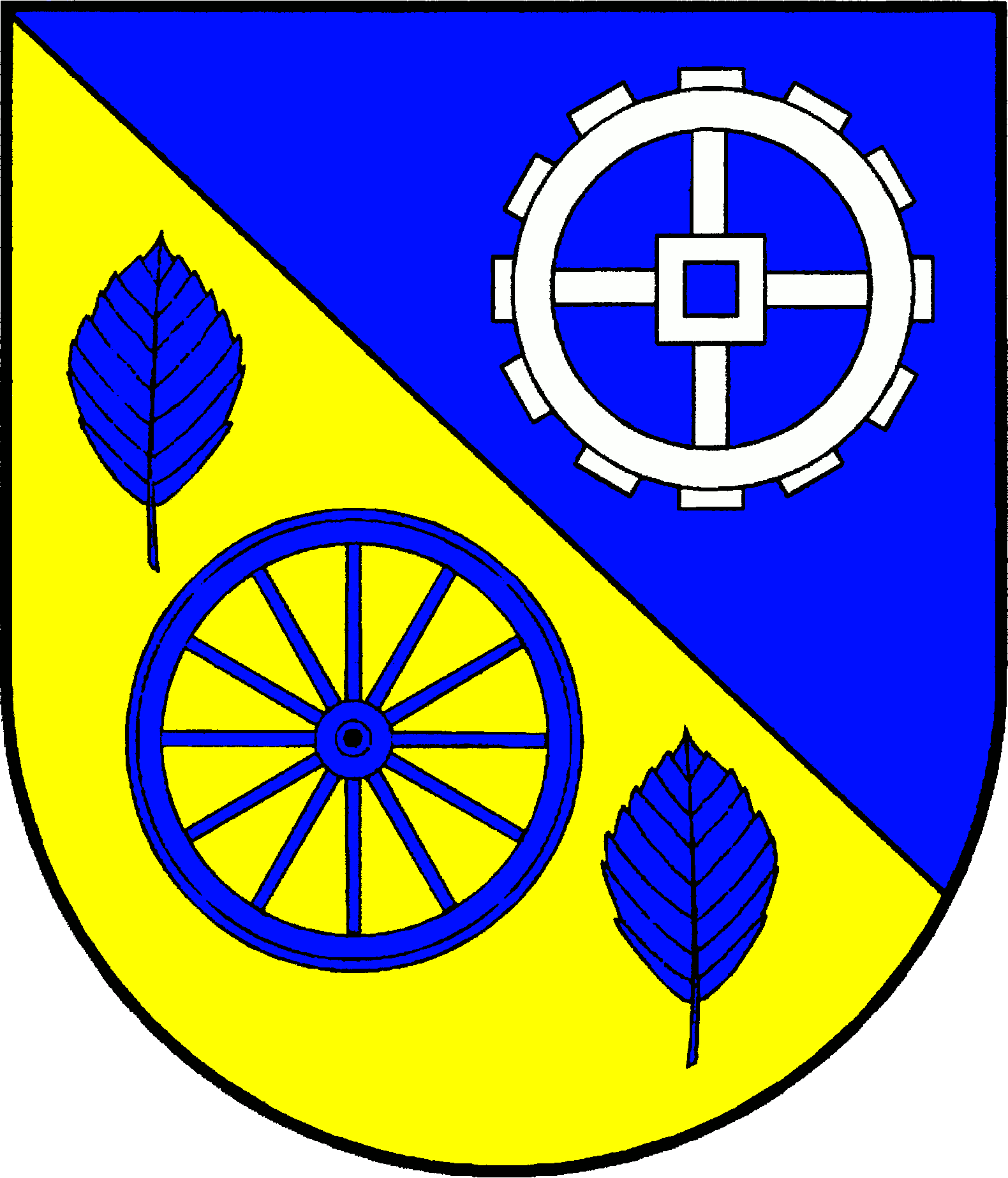 Coat of arms of the municipality Dersau in Schleswig-Holstein, Germany.